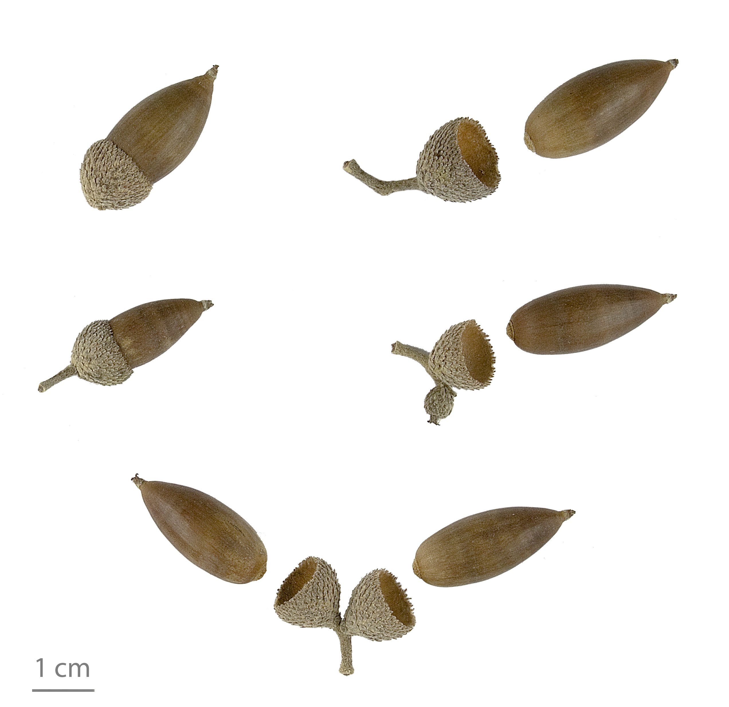 Holm Oak , fruits and seeds